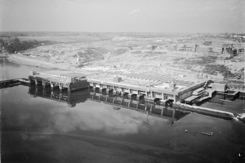 IWM caption: Concrete U-boat pens at Brest showing damage sustained after bombing attacks by the Royal Air Force.